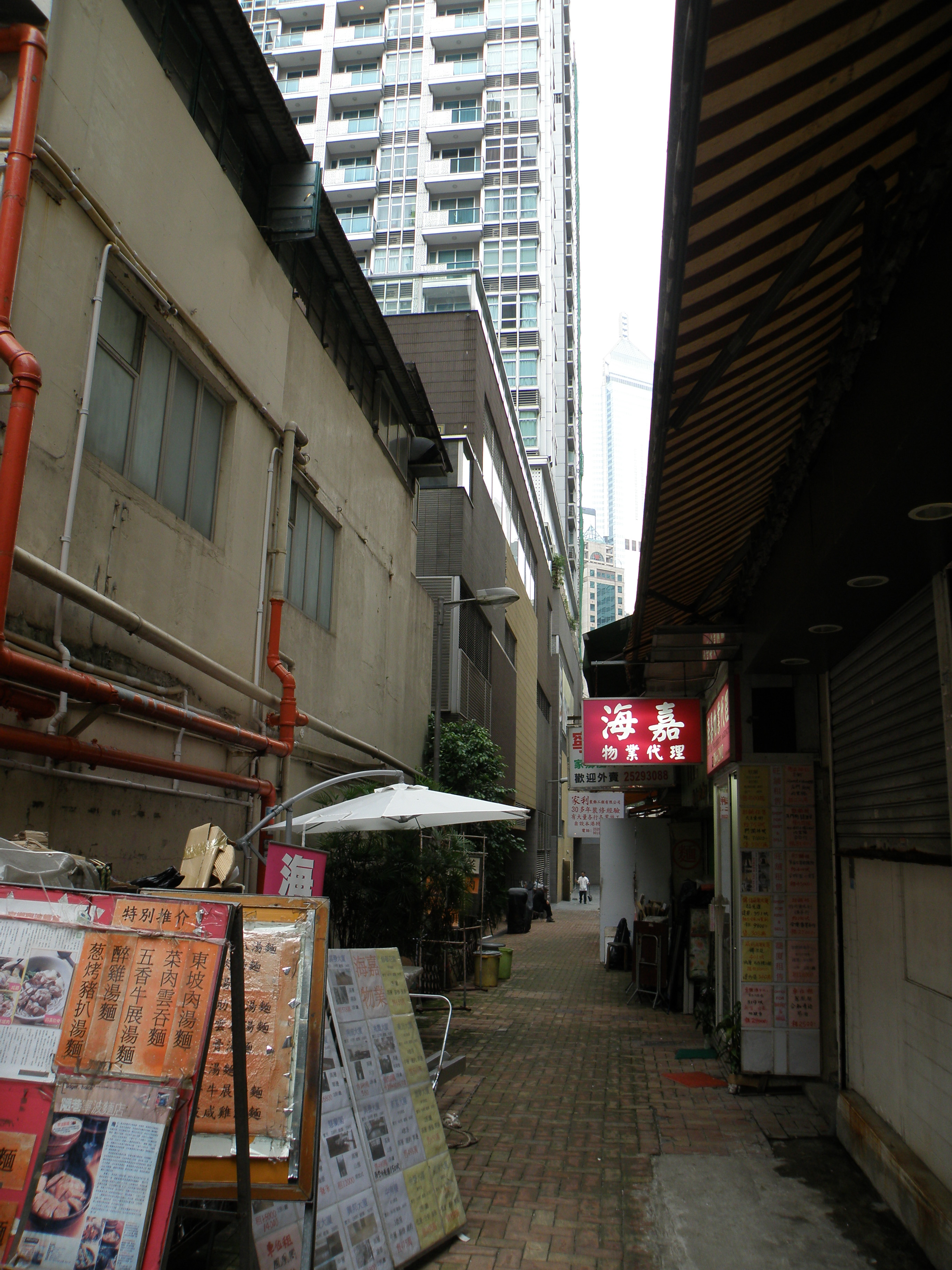 Tai Wong Street West in Wan Chai, Hong Kong.